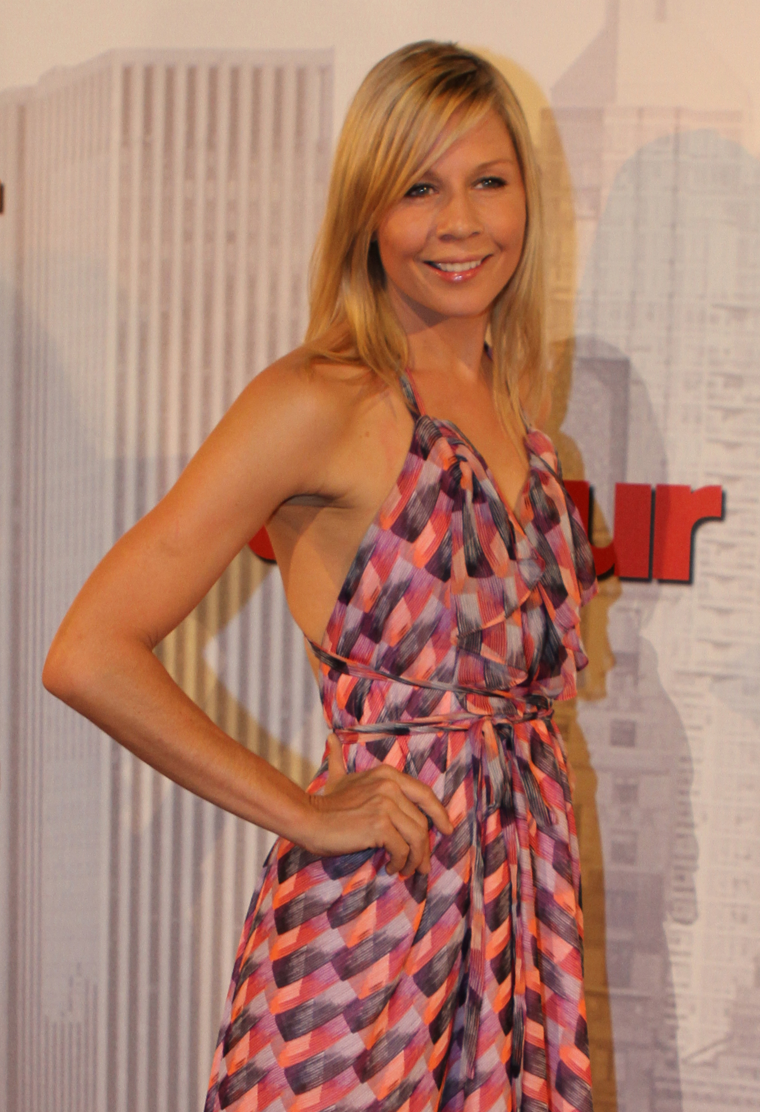 Gigi Edgley at the premiere of Arthur in Sydney, Australia.